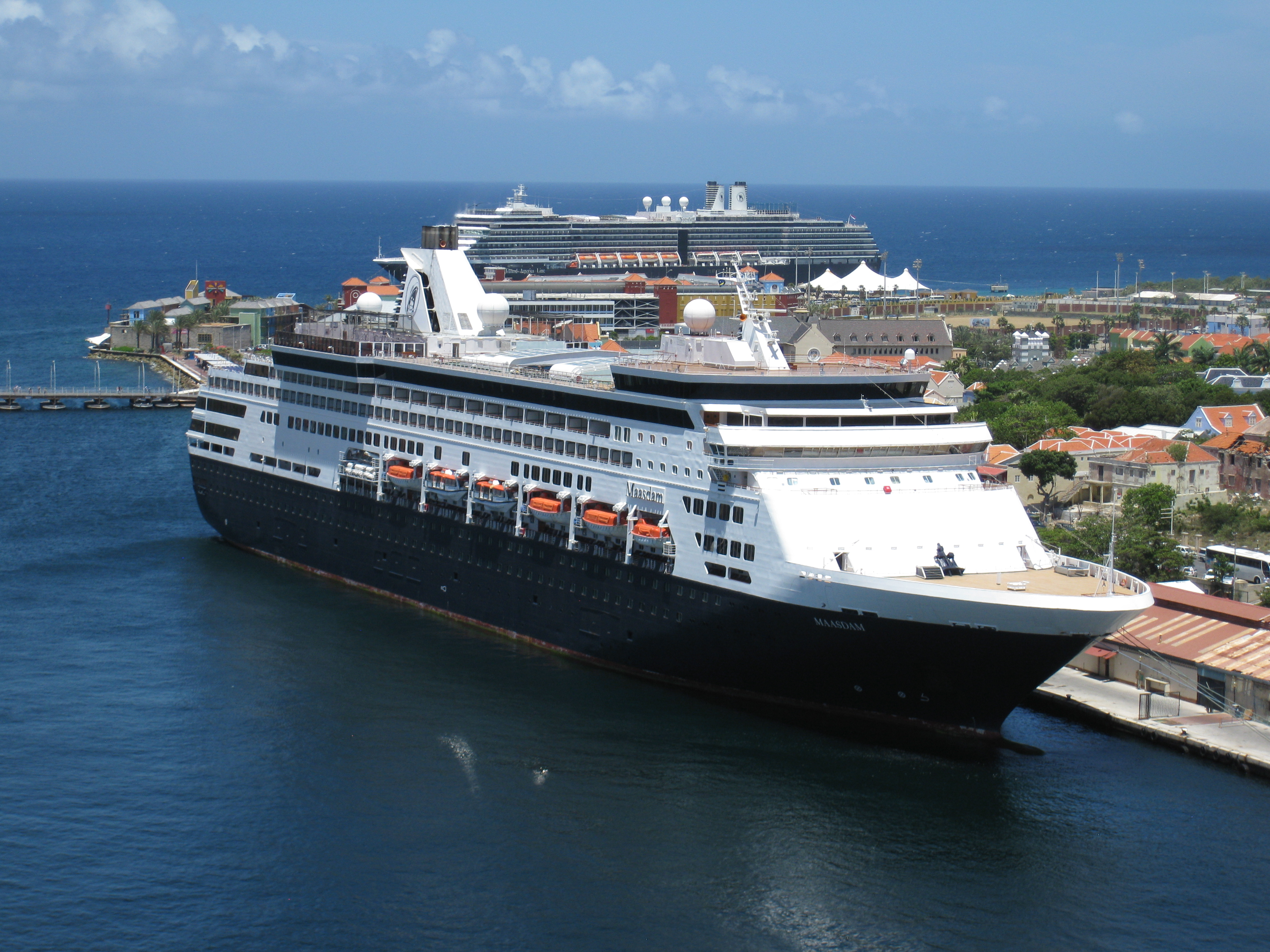 MS Maasdam in downtown Curacao, Netherlands Antilles with company ship MS Noordam behind in the New Passenger Terminal.